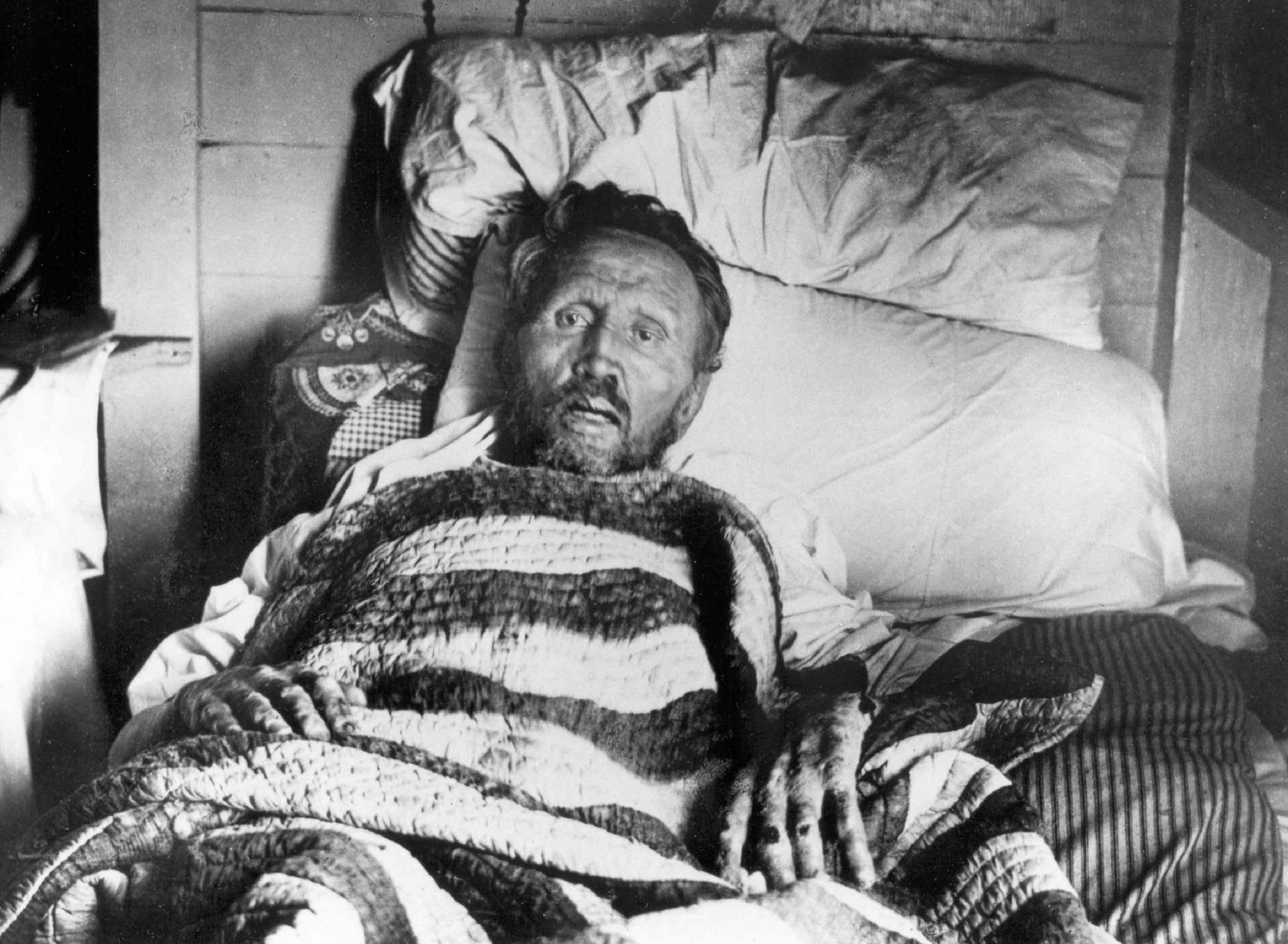 Father Damien on his deathbed, resting on his side. Presumably taken by Dr. Sydney B. Swift on Palm Sunday, April 14, 1889.